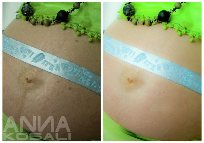 Pregnant Woman Portrait. Photo shot and digital manipulation by Anna Kosali. Model: Yuliana Eylül